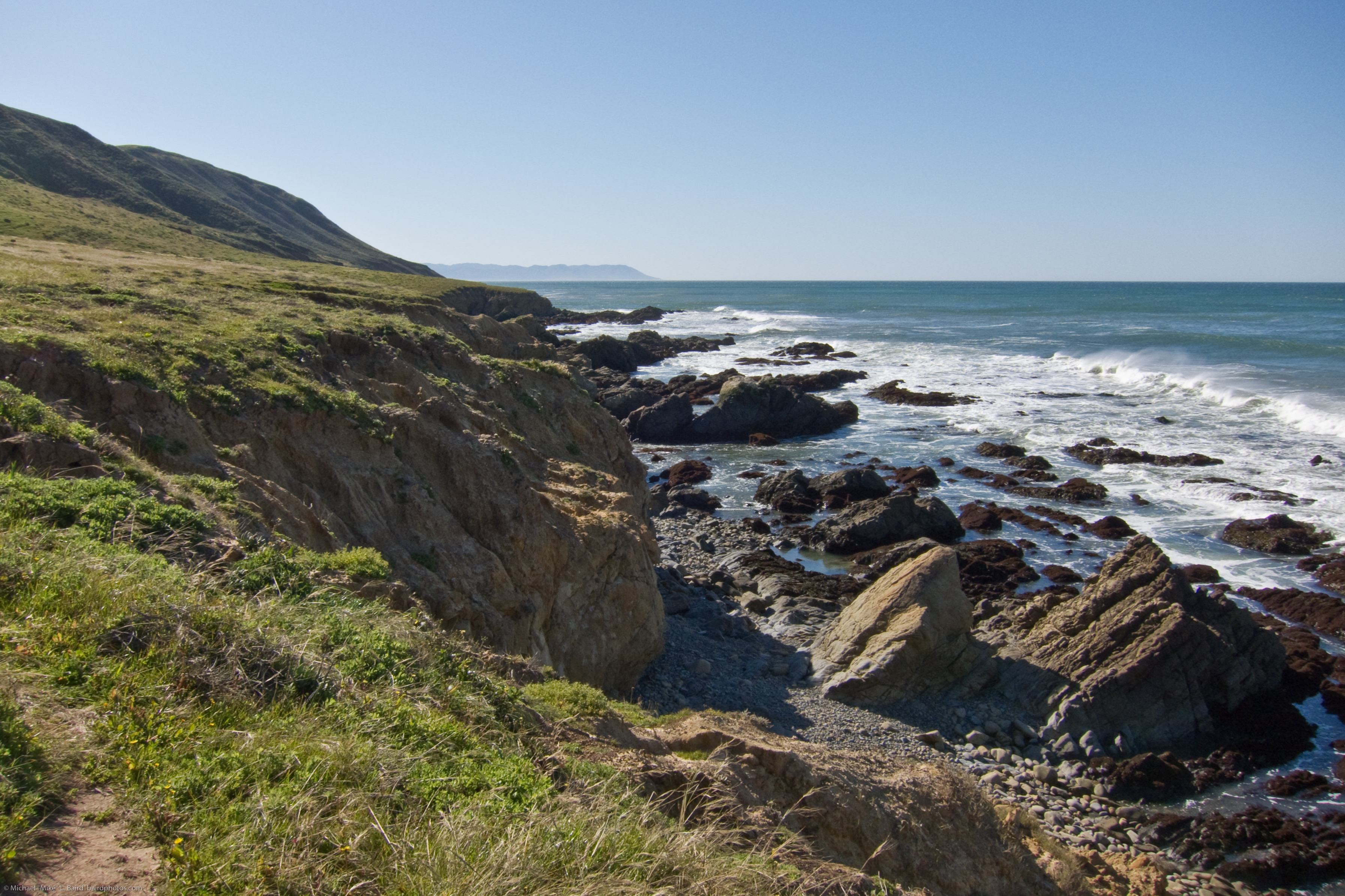 Looking south at Harmony Headlands State Park, just north of Cayucos and south of Harmony, California, USA. 07 April 2010. Canon S90, handheld. Tech note: -1/3 ev exposure compensation for wave highlight recovery.